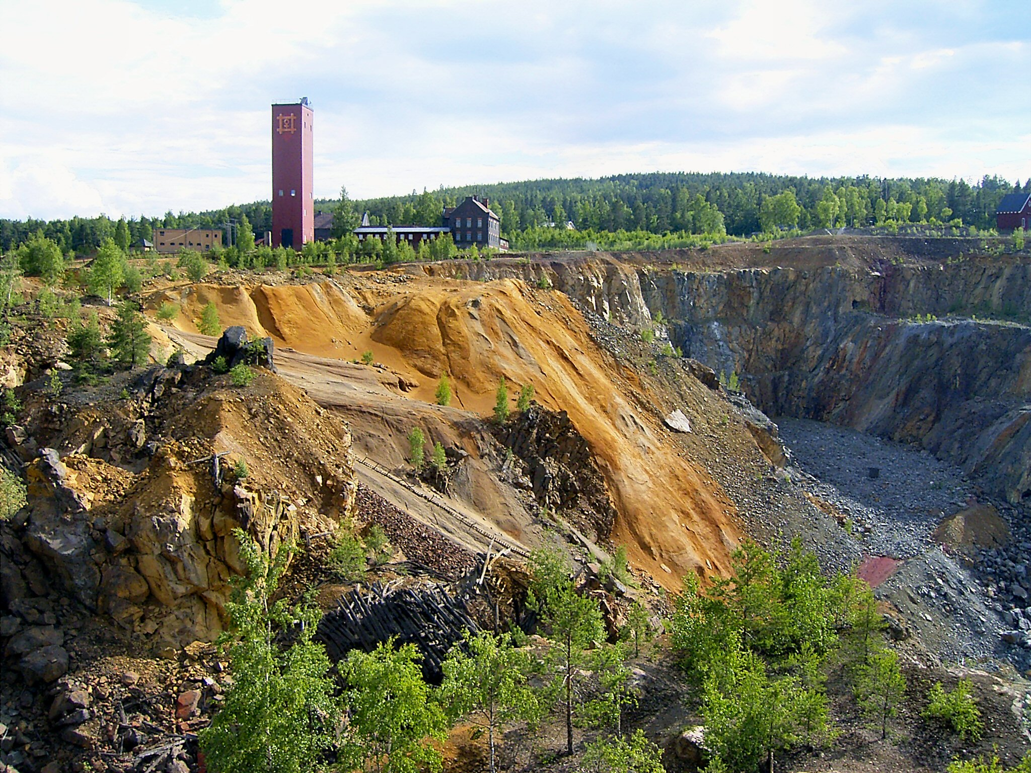 Falun Coppermine